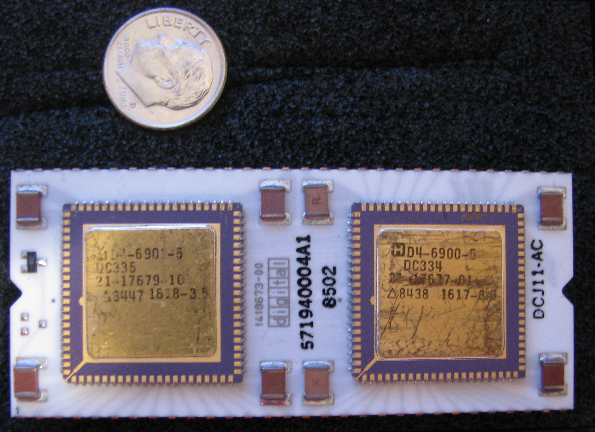 Photograph of top side of DEC J-11 microprocessor. US dime shown for scale.